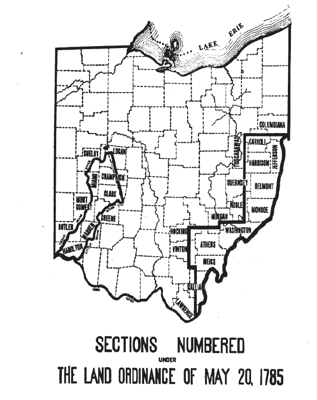 tracts in Ohio that were surveyed, all in the 18th century, into townships with individual sections numbered by the procedures of the Land Ordinance of 1785